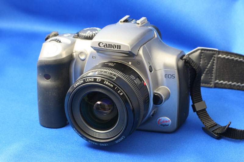 Canon EOS Kiss Digital (Canon EOS 300D)